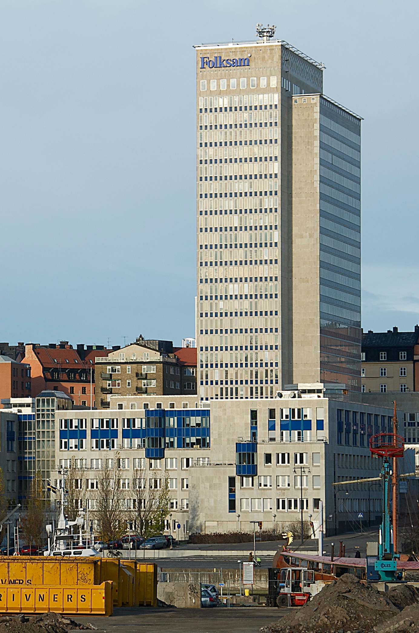 Folksamhuset (The Folksam building), Stockholm.